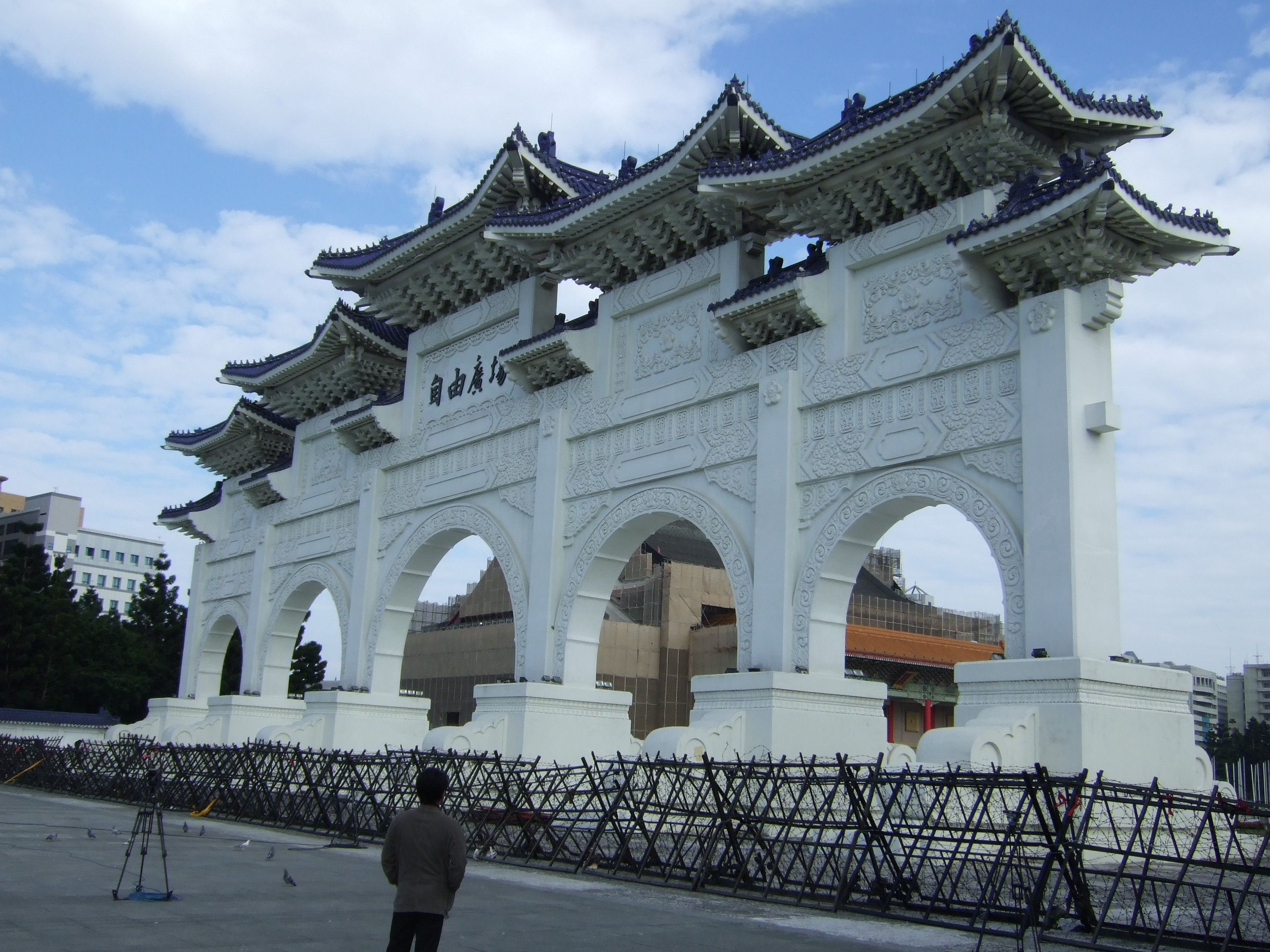 自由廣場（前大中至正），「整修」中的臺灣民主紀念館（或稱中正紀念堂）。 Freedom Plaza (formerly Da Zhong Zhi Zheng), Democracy Memorial Hall (aka CKS Memorial Hall) under "maintenance".freedom: prohibitted